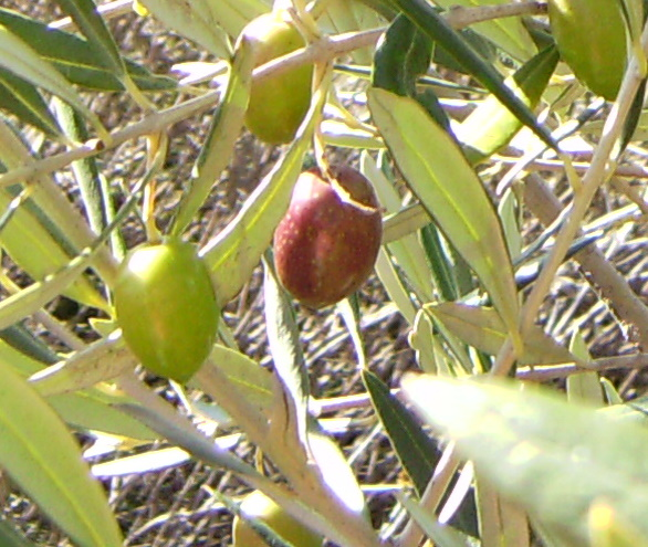 Olive tree cultivar Picual, Castelltallat, Catalonia